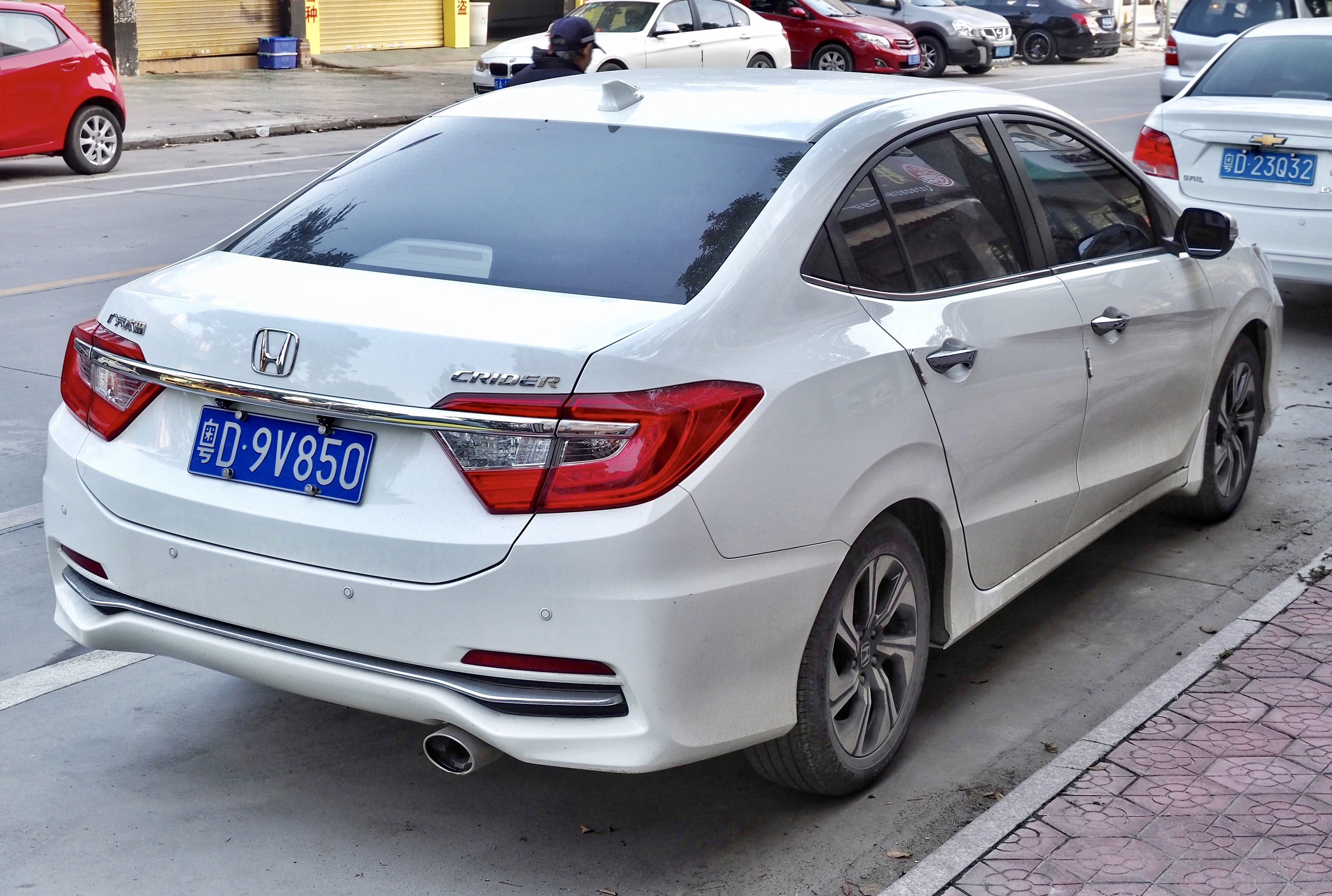 A 2013 GAC-Honda Crider photographed in Shantou, Guangdong Province, China. 中文（中国大陆）: 一辆2013年的广汽本田凌派，拍摄于中国广东省汕头市。